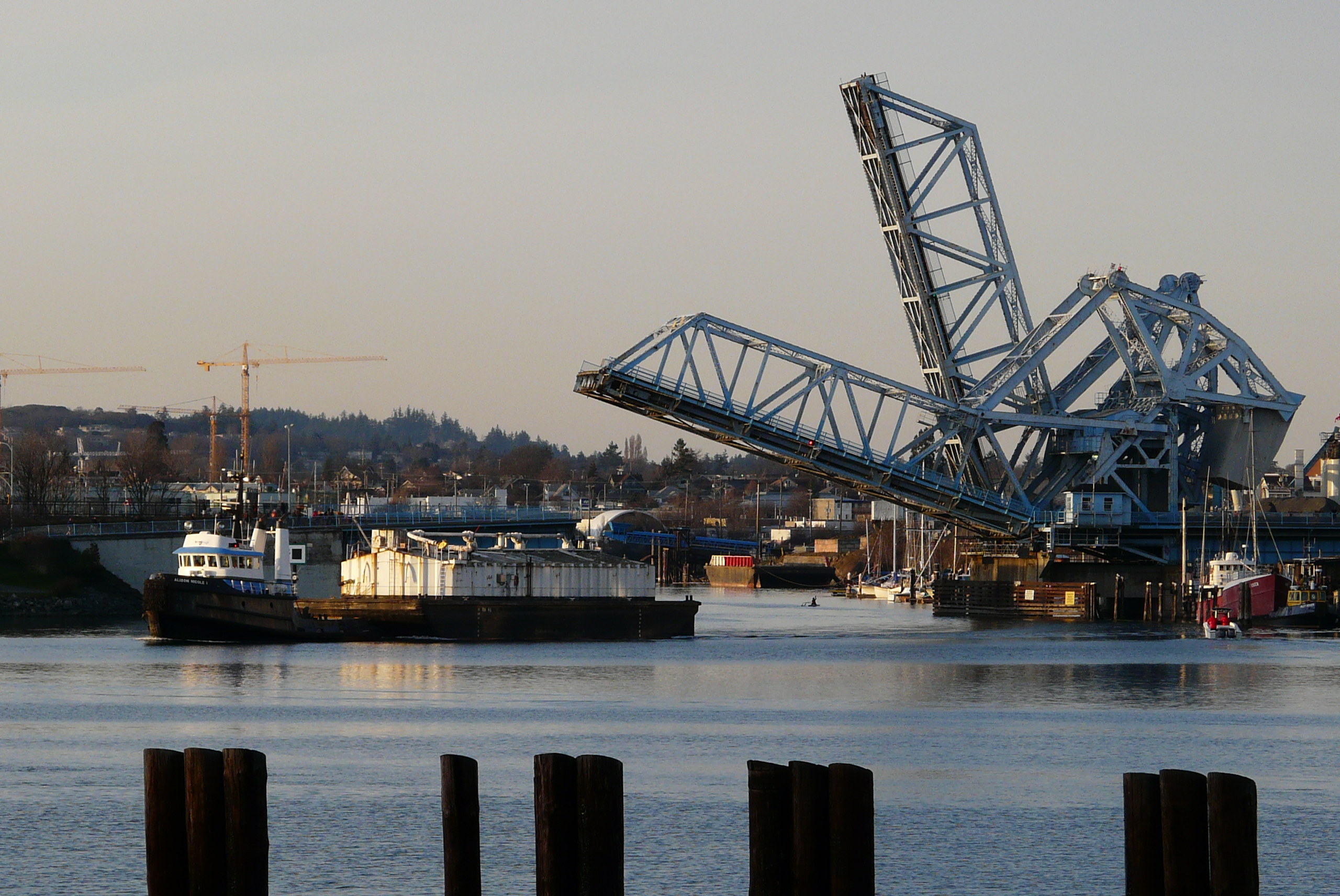 This photo shows the historic Johnson Street Bridge in Victoria, British Colombia Canada. The bridge is counter-weighted and lifts two decks, a vehicle and train deck, in order to accommodate marine traffic. Also known as "The Blue Bridge" by locals.